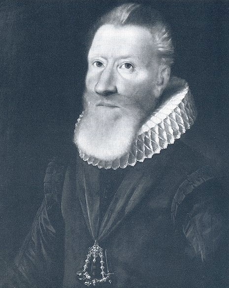 Portrait of Danish Rigsadmiral Albret Skeel in the holdings of the Frederiksborg Museum in Hillerød, Denmark